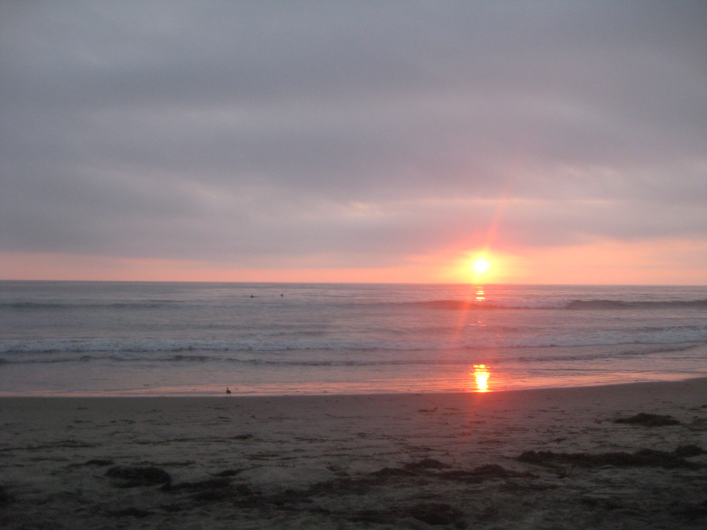 Sunset at San Elijo State Beach, California, USA